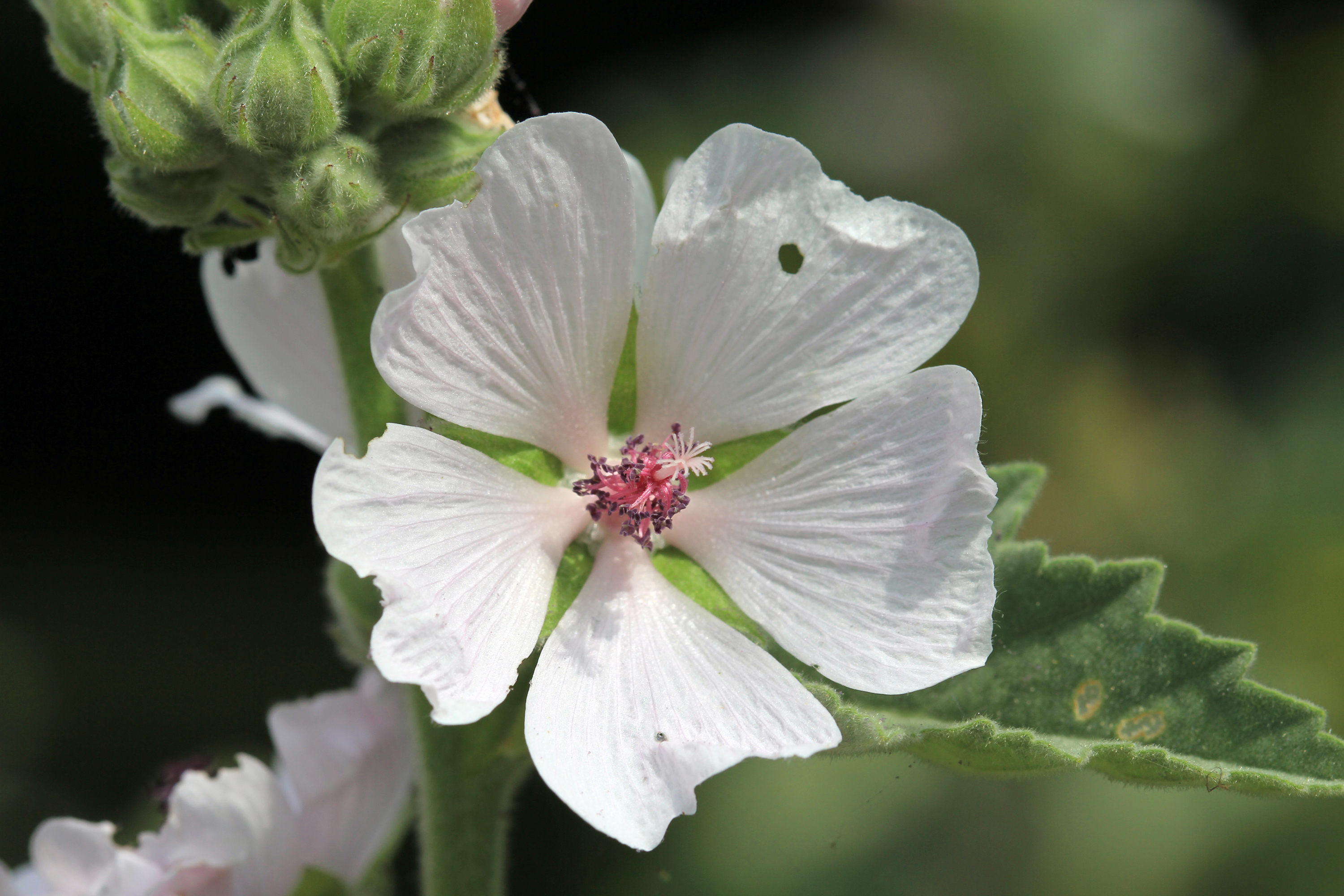 Flower of plant Althaea officinalis from Botanical Garden of Charles University in Prague, Czech Republic